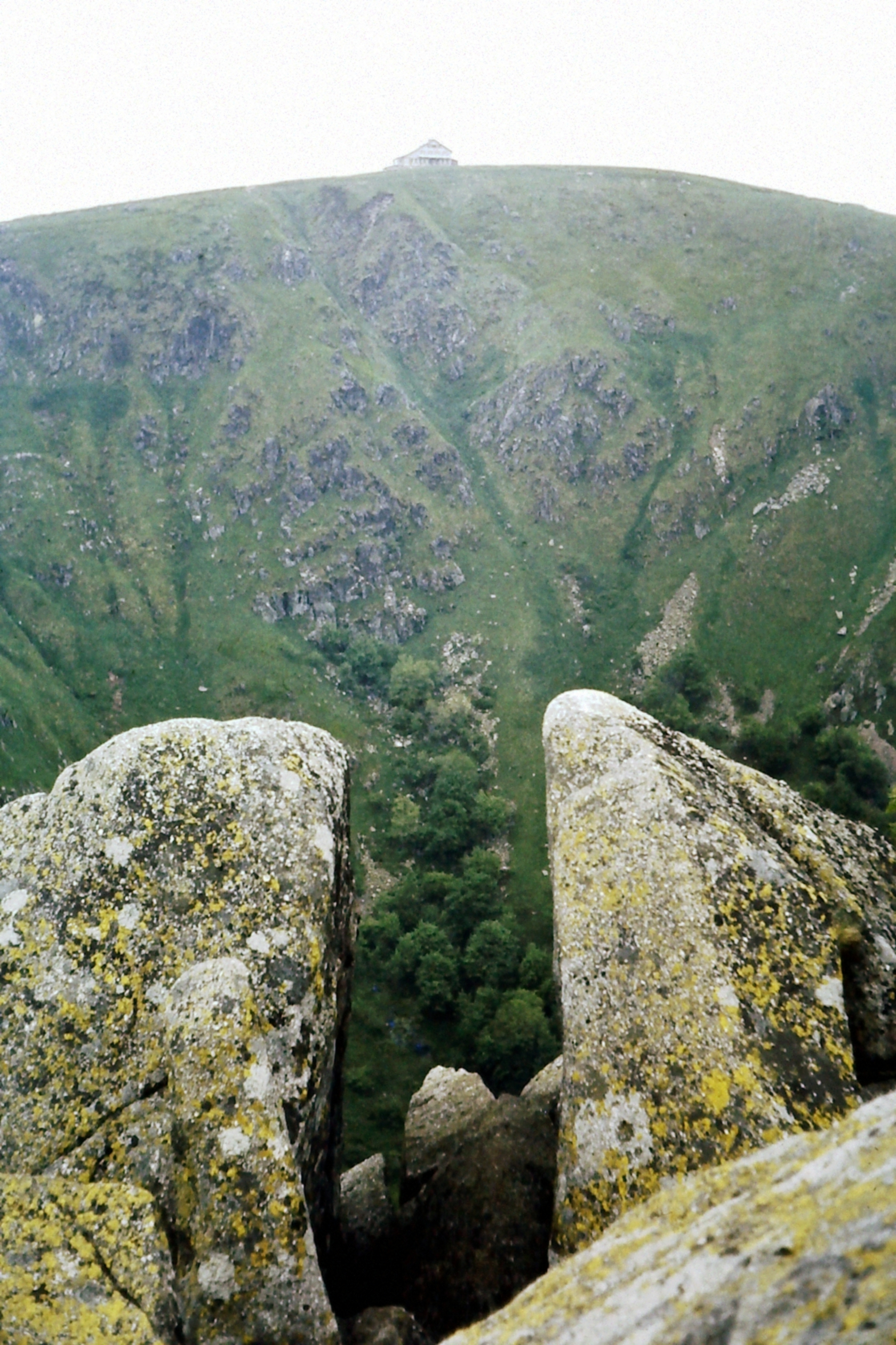 Vosges, view from the Spitzkoepfe range to the Hohneck and the Wormspel cirque (corrie)